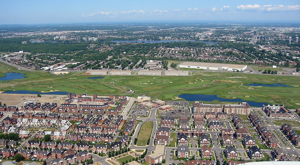 An ironically named TND under construction by Bombardier, the aerospace giant, on the site of a former airport north of Montreal (but on the island). Note the public golf course, not interwoven with the houses as is common in the US, and the predominantly attached housing; it also has some charming street names. It's conveniently under the Dorval flight path. (July 2005) Oddly, there are many airport-reuse TNDs out there, including Stapleton in Denver, Playa Vista in Los Angeles, North Richland Hills in Ft. Worth, Mueller in Austin, The Glen in Glenview, Ill., Baldwin Park in Orlando, and at least a sliver of El Toro in Tustin, Calif.